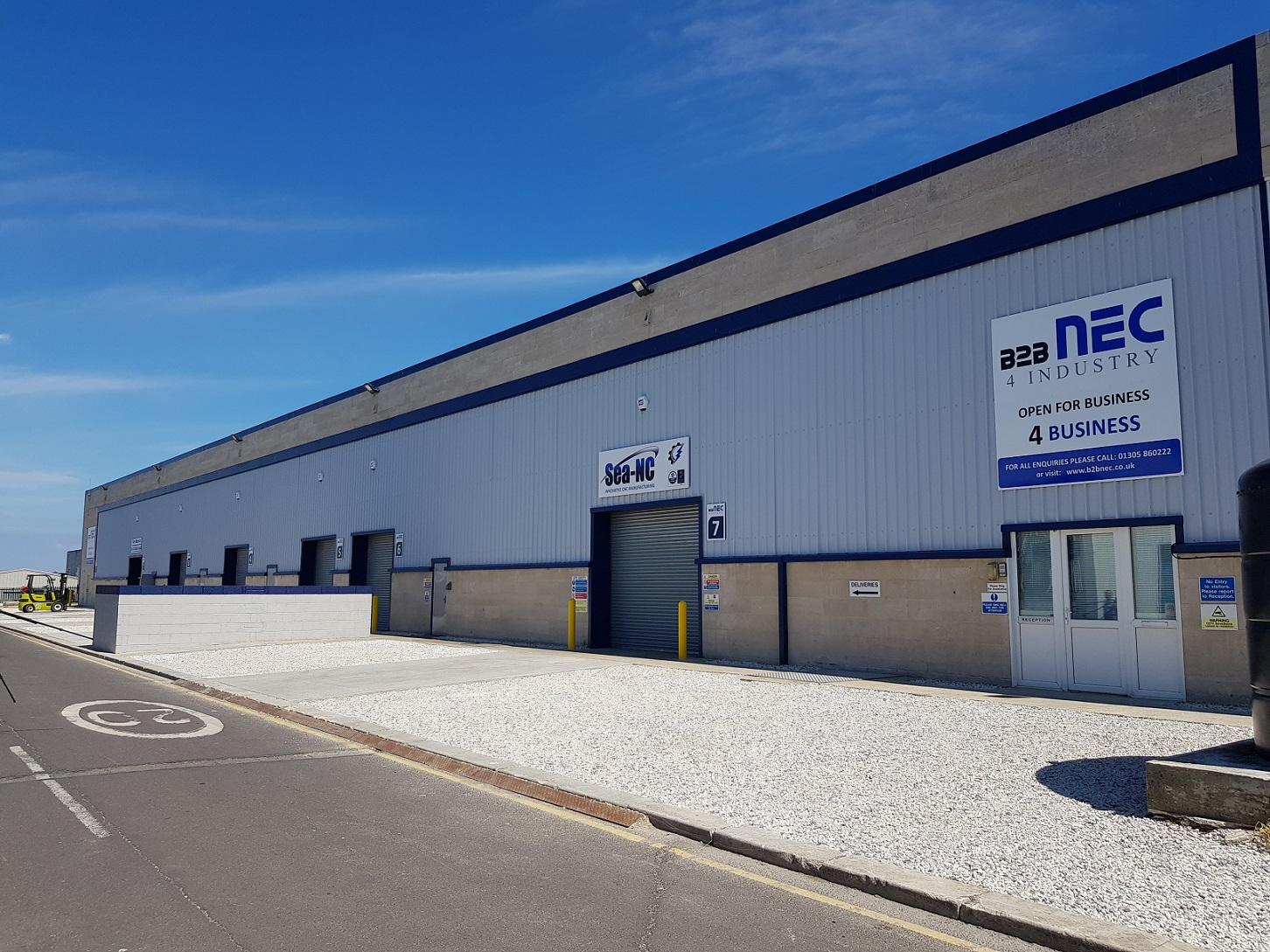 The re-developed Network Enterprise Complex (NEC)